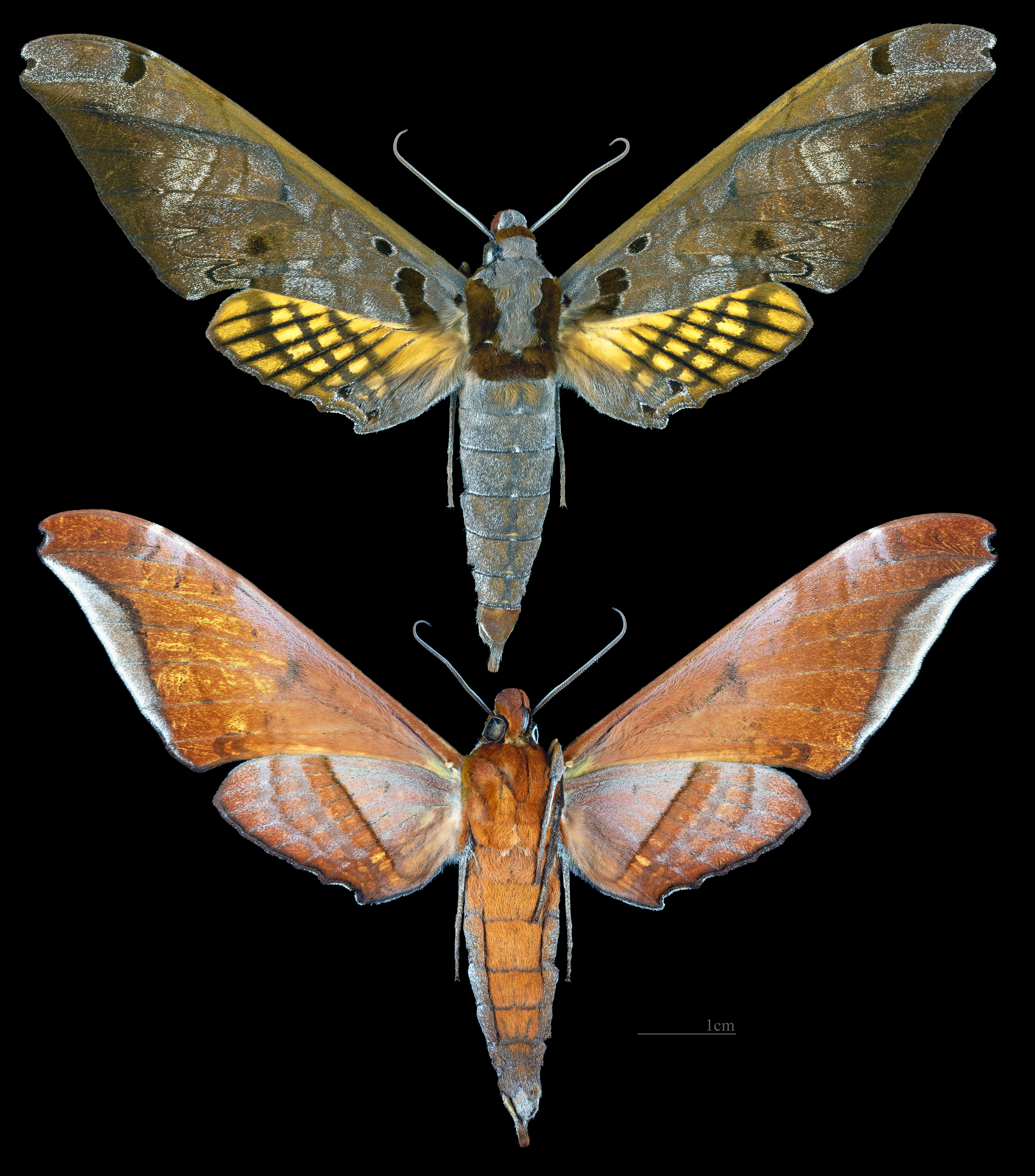 Adhemarius tigrina - Two views of same specimen Collection of the Mathematician Laurent Schwartz